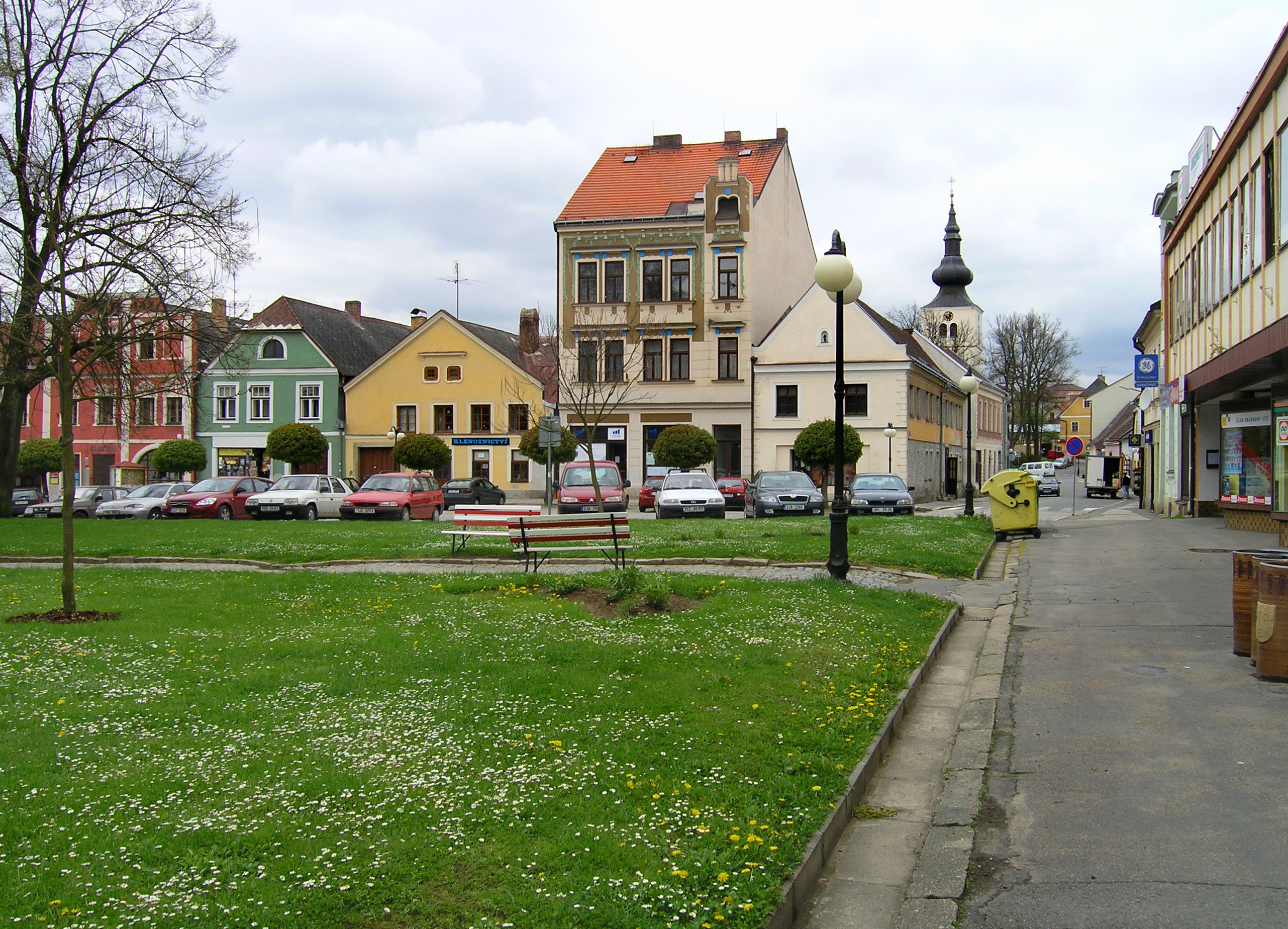 Čsl. armády square in Kamenice nad Lipou, Czech Republic